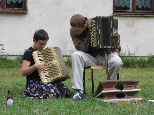 3-rows button accordion and 3-rows pedal accordion from Poland. Workshops at the Tabor Camp organized by Dom Tanca (House of Dance)